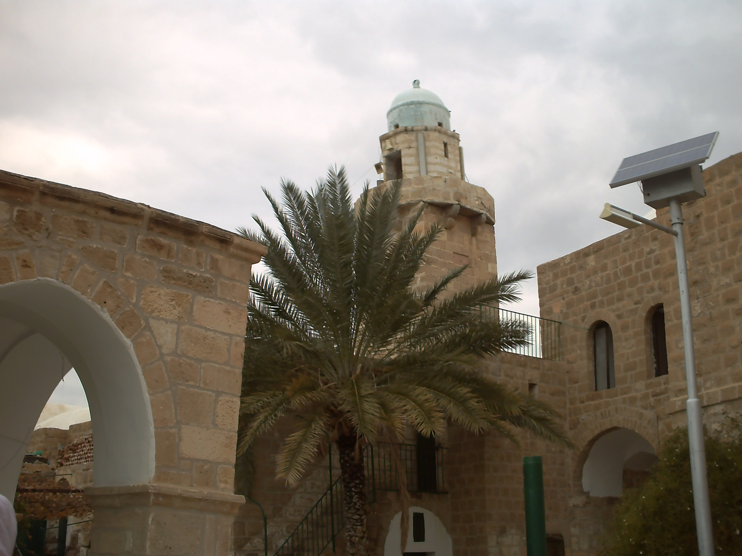 Nabi_Musa_jerico-Jerusalam